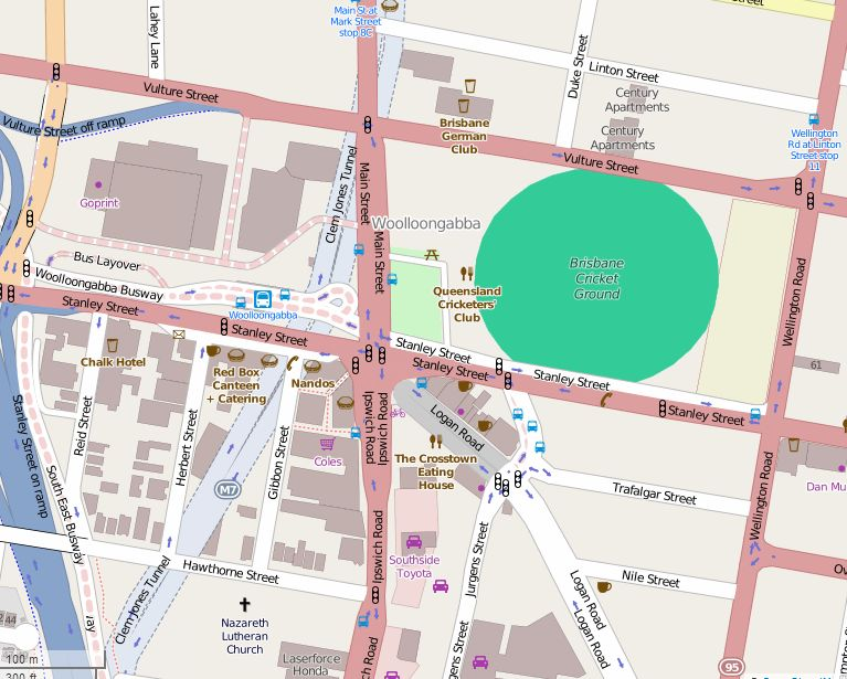 Open Street Map - Woolloongabba Fiveways